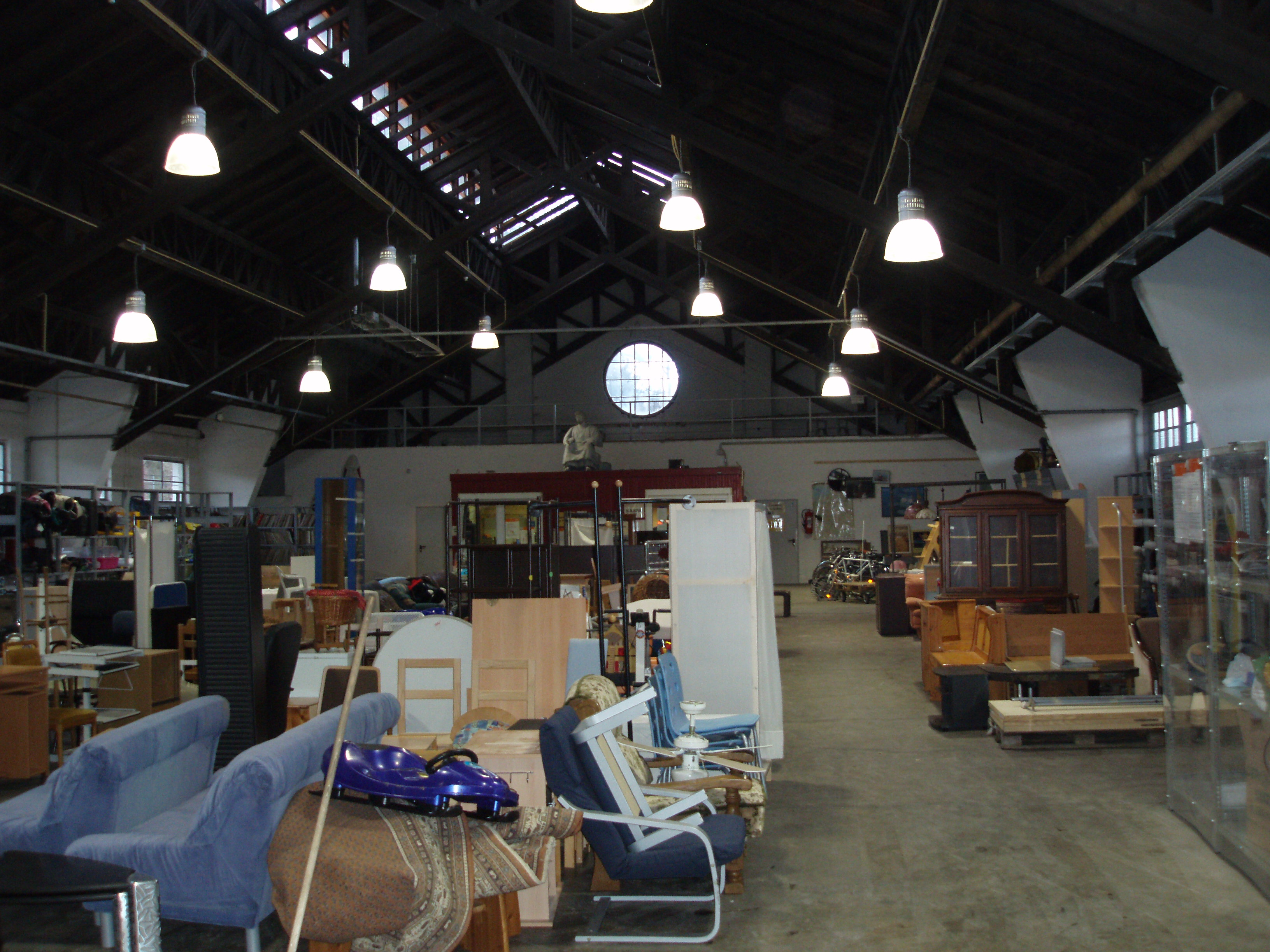 Munich municipal waste disposal company, second hand store